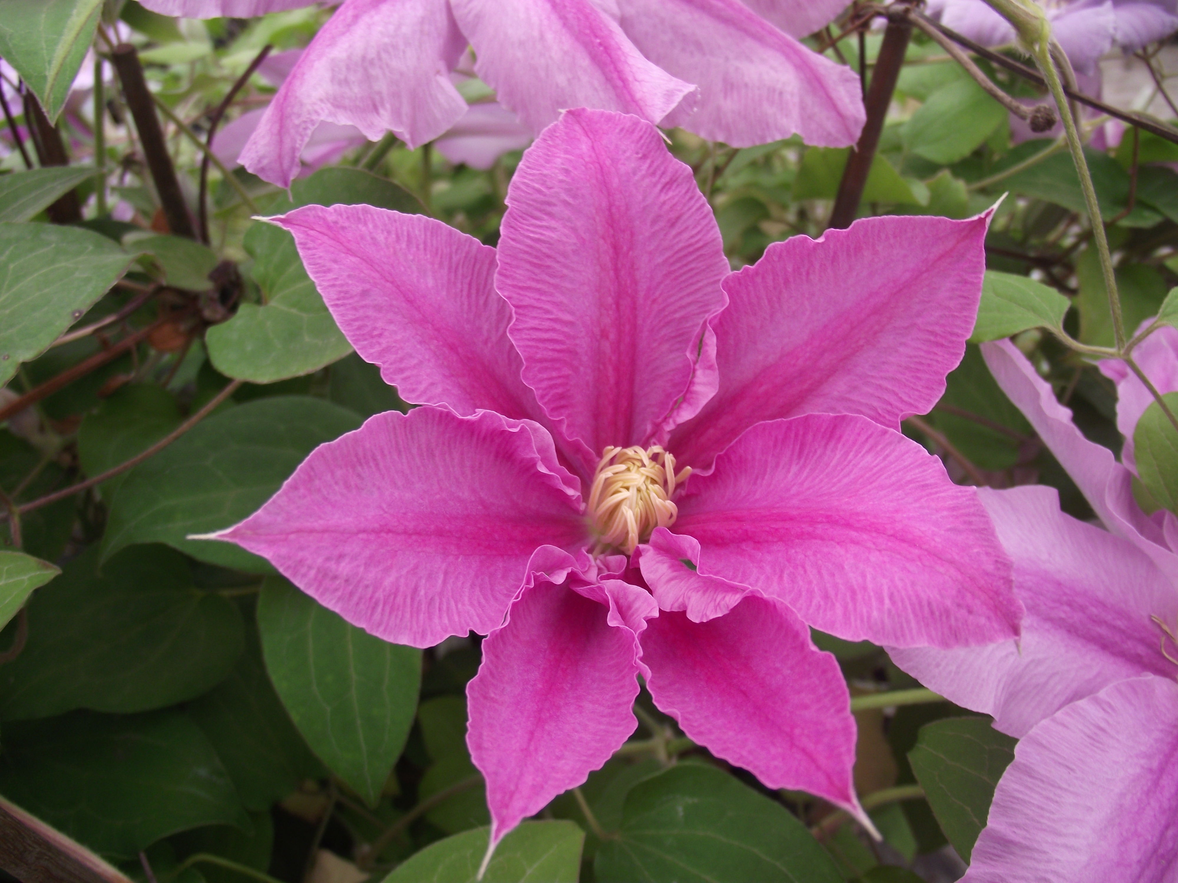 Clematis patens Abilène